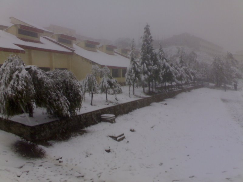 Building of the GSS Institute of Technology (GSSIT) in Kengeri, Bangalore (India)